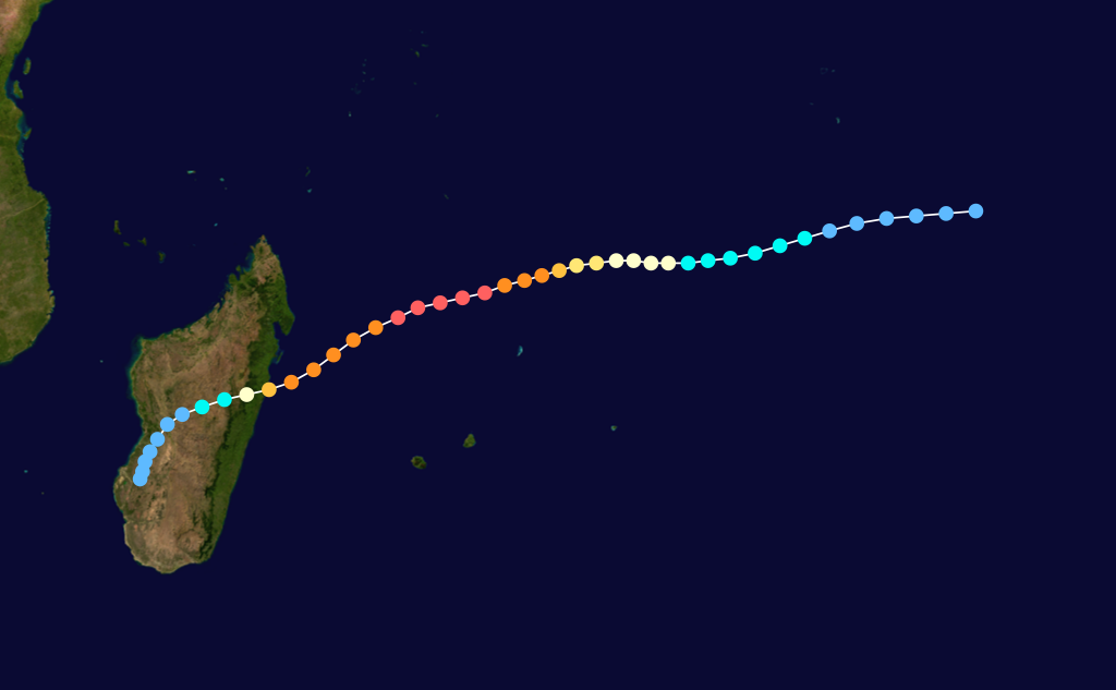 Cyclone Geralda (1994) track. Uses the color scheme from the Saffir-Simpson Hurricane Scale.